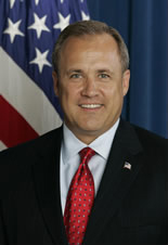 White House Portrait of James Allen "Jim" Nussle